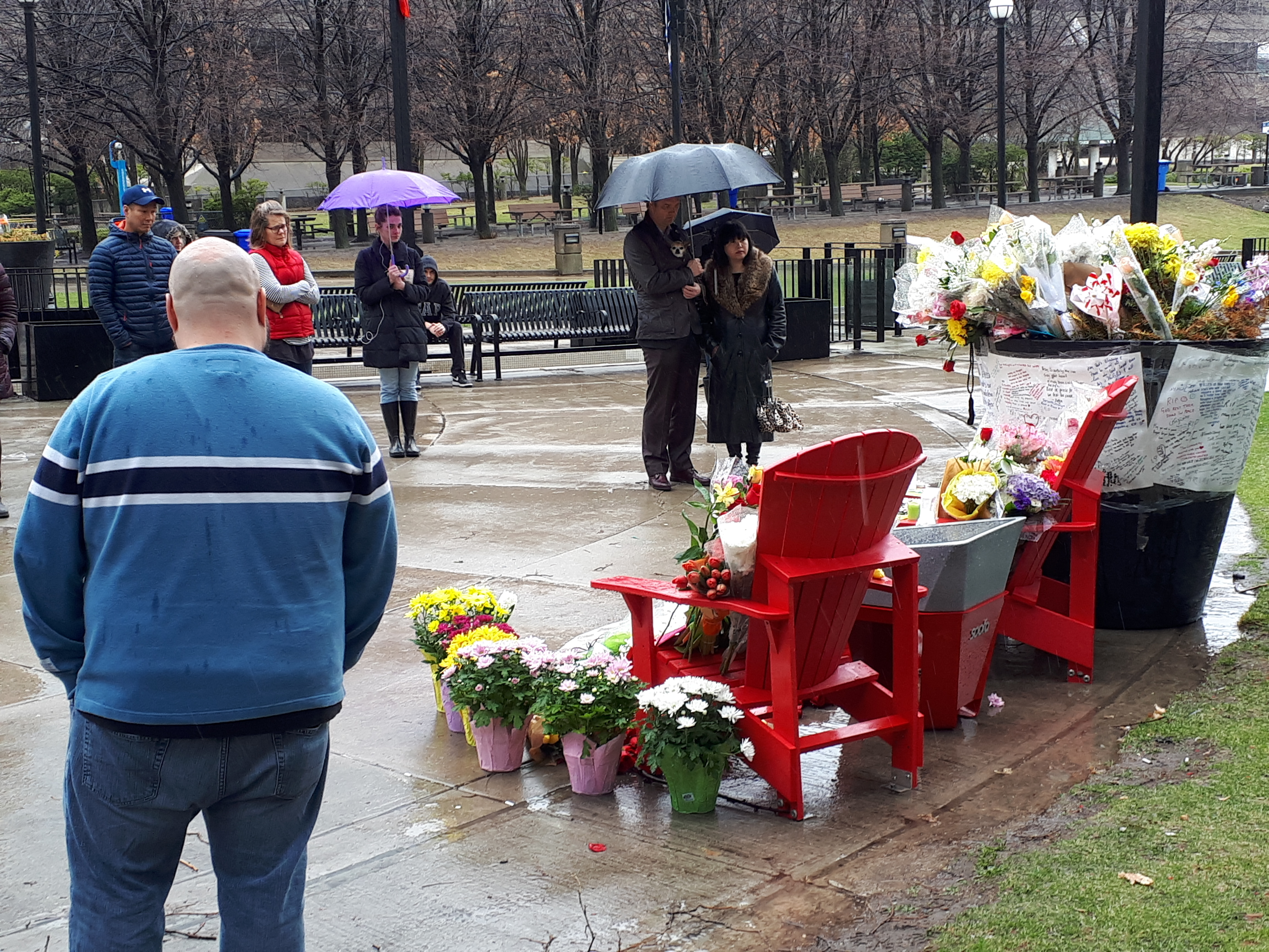 impromptu gathering to remember the victims